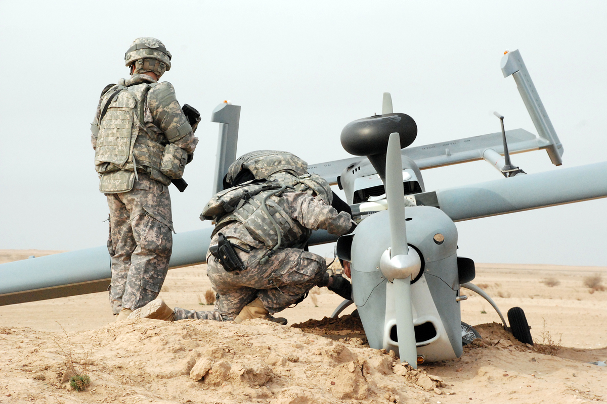 Members of the 277th Aviation Support Battalion downed aircraft recovery team inspect a Hunter Unmanned Aerial Vehicle Jan. 20. When the UAV experienced in-flight engine trouble and made an emergency landing near Baji, north of Tikrit, elements from all six of the CAB's Battalions joined forces for the recovery mission.